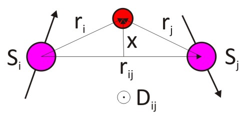 Relation of DM vector to local geometry (sketch)